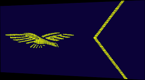 A